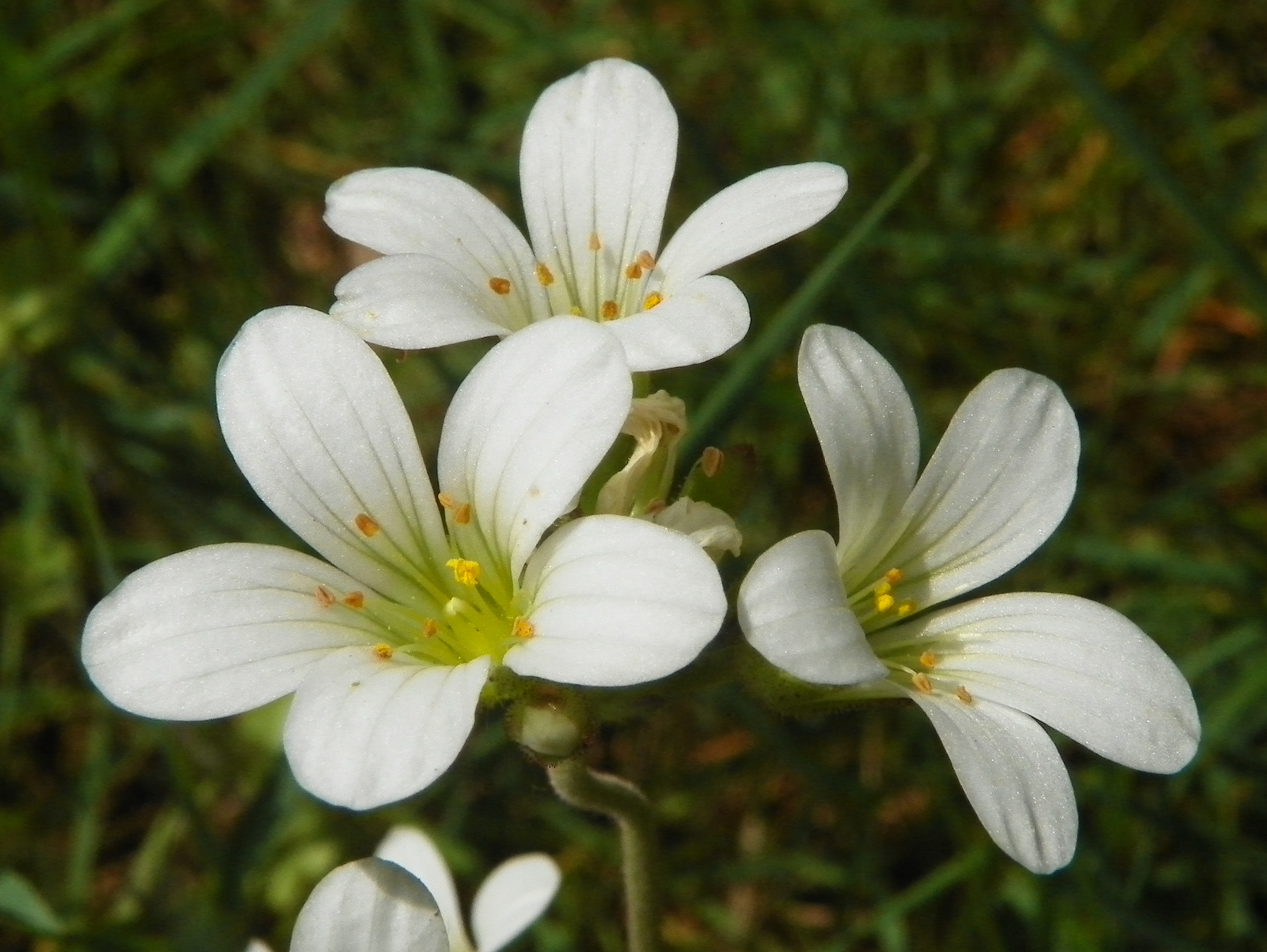 Meadow Saxifrage (Saxifraga granulata), seen on 25 May 2013 during one of my butterfly surveys in Stevenage.